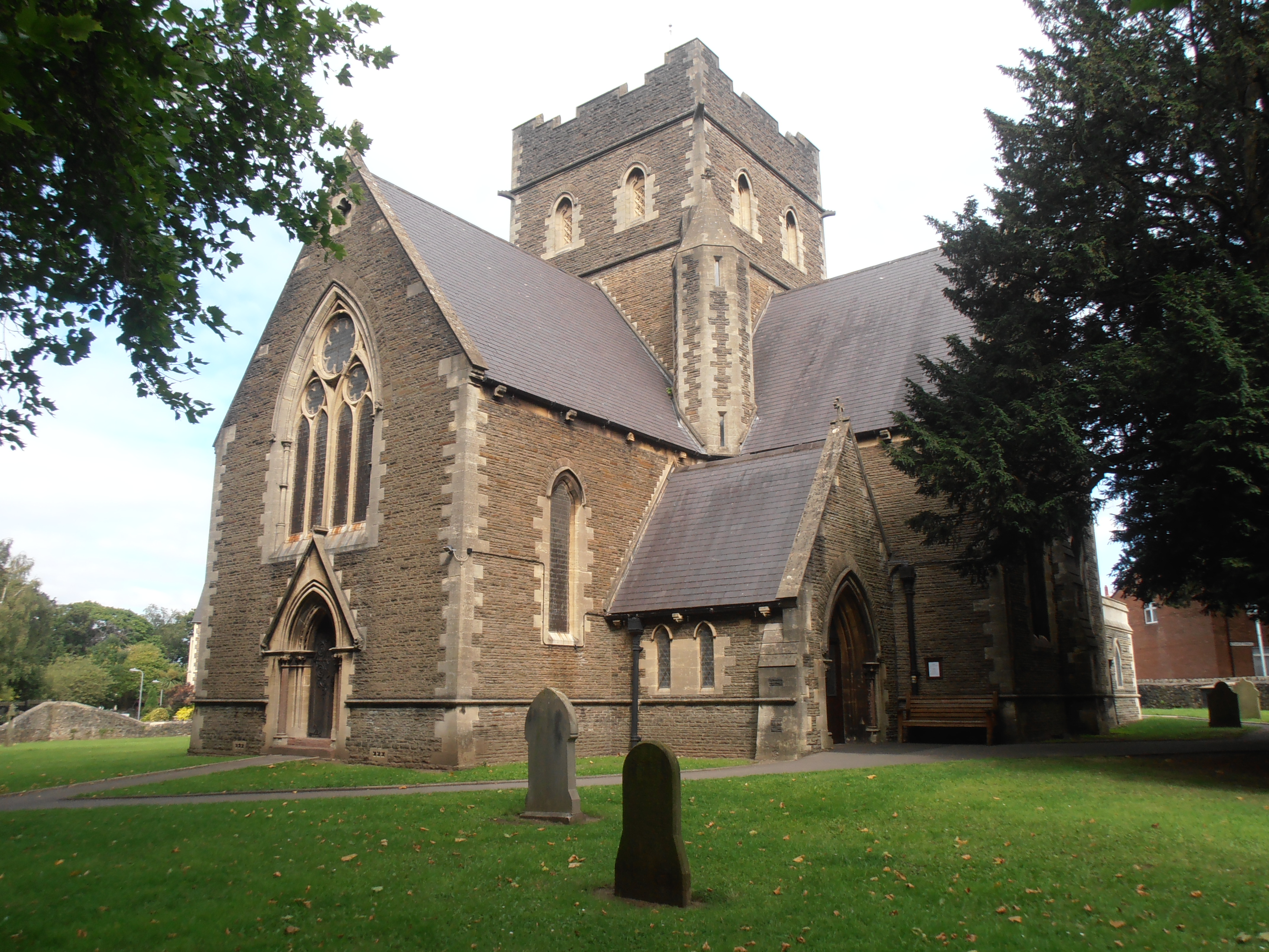 St Margaret's parish church, Roath, Cardiff (John Prichard, 1869–70)